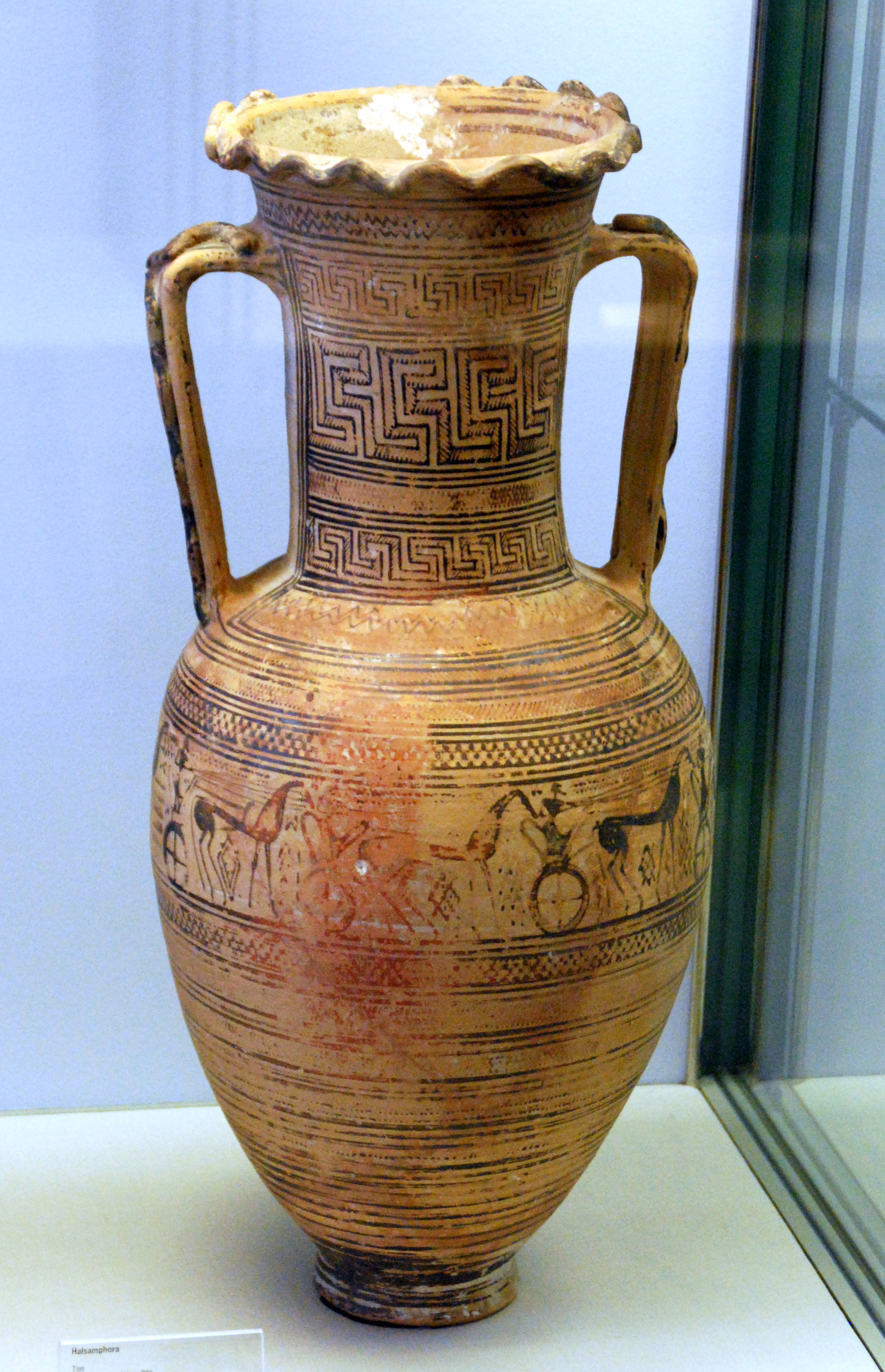 Attic geometric neck amhpora by the workshop of Athens 894; main frize with 8 charioteers; clay, ca. 720 BC; Museum August Kestener Hannover, Inventory 1953, 148.